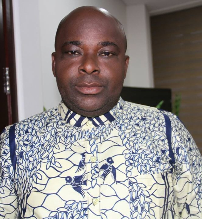 Ghanaian men in politics